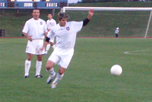 Osni Neto during a Canadian Soccer League match in 2007.